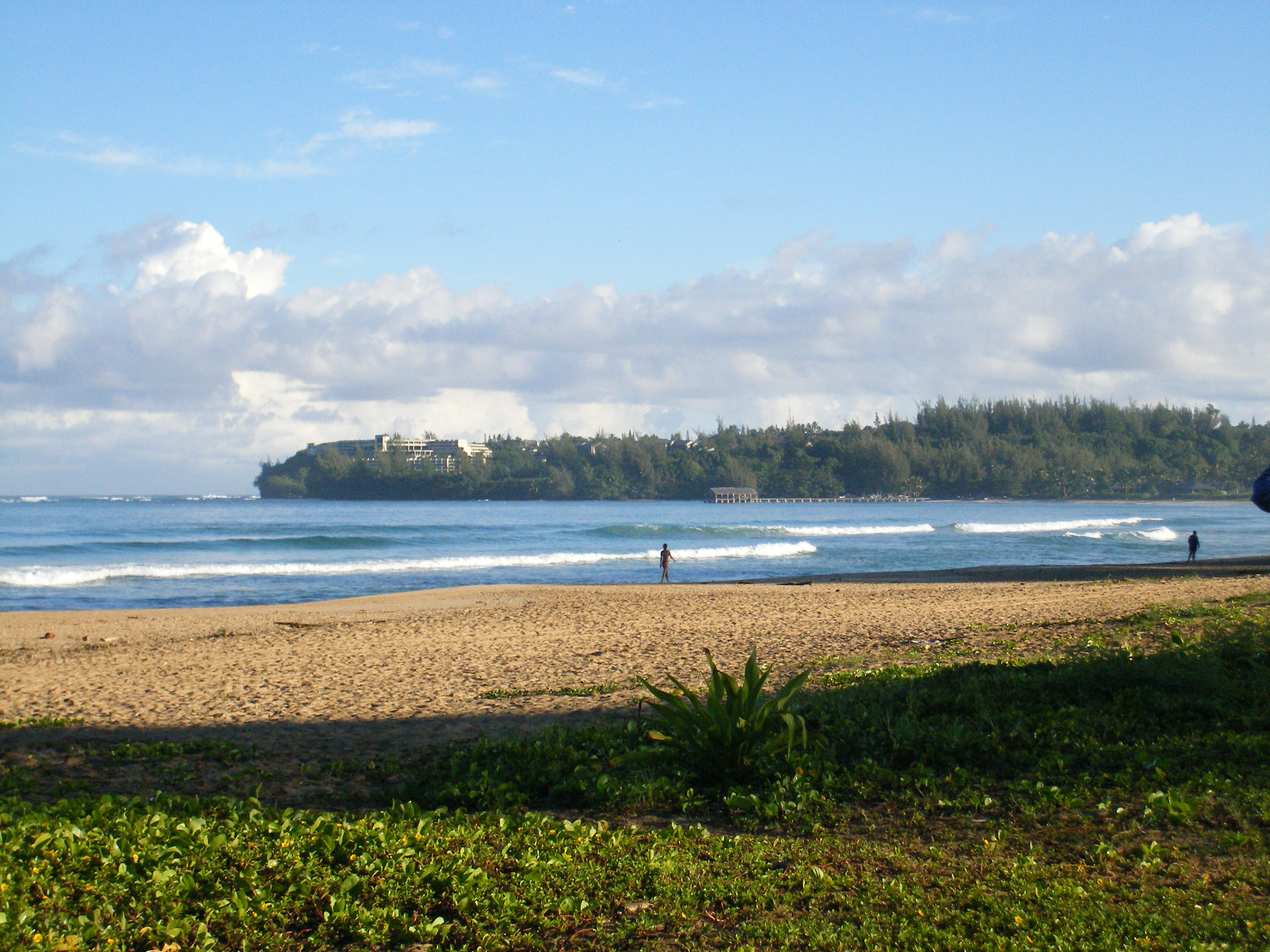 Hanalei Bay from Wai'oli Beach Park, by Greg O'Shea